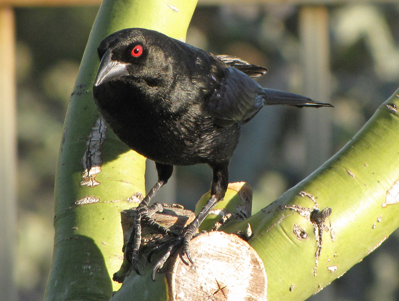 A Bronzed Cowbird in Cape May Point State Park, Tucson, Arizona, USA.